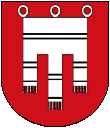 Blazon of Werdenberg, Canton of St. Gallen